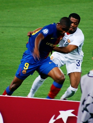 Samuel Eto'o of Barcelona defended by Patrice Evra of Manchester United